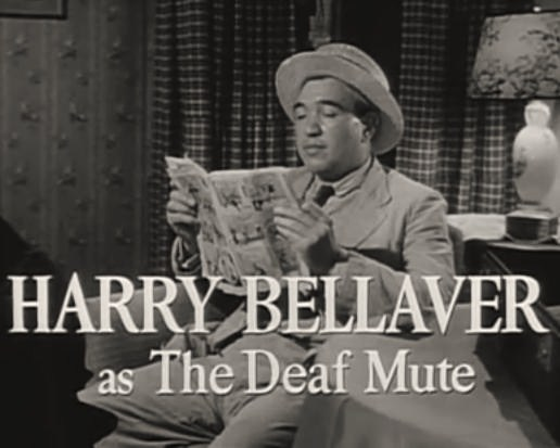 Harry Bellaver in No Way Out (1950) - trailer (cropped screenshot)